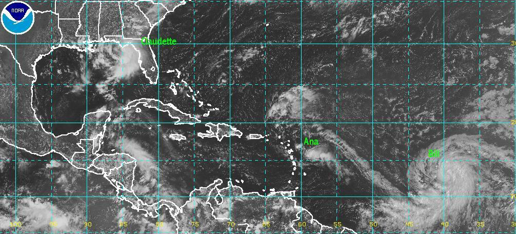 Tropical Storms Ana, Bill and Claudette on August 16, 2009 during the Atlantic Hurricane season. Image Credit - National Oceanic and Atmospheric Administration (NOAA) Goes East satellite.